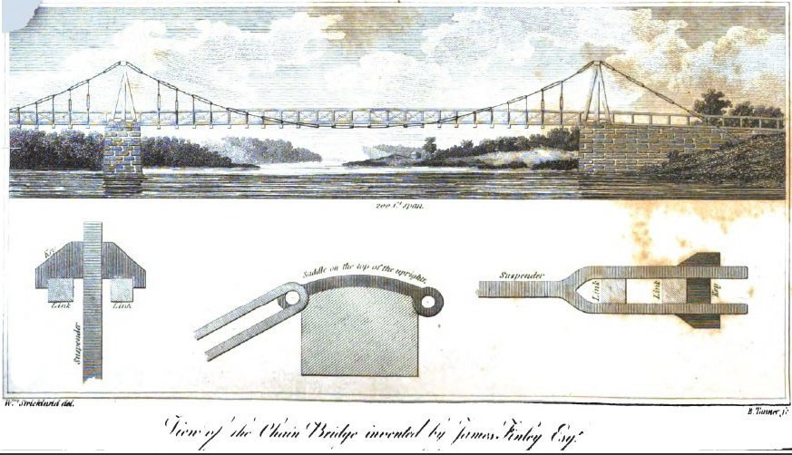 "View of the Chain Bridge invented by James Finley Esqr." aka Chain Bridge at Falls of Schuylkill, Philadelphia, Pennsylvania (1808).